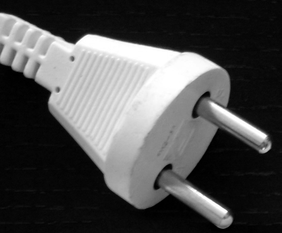 CEE 7/2 type plug